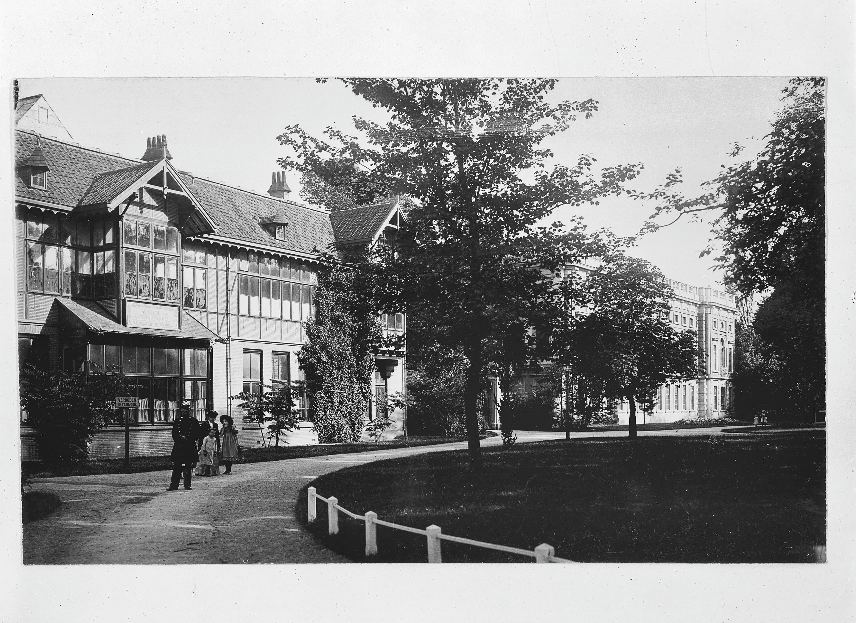 School of Applied Arts and Colonial Museum.